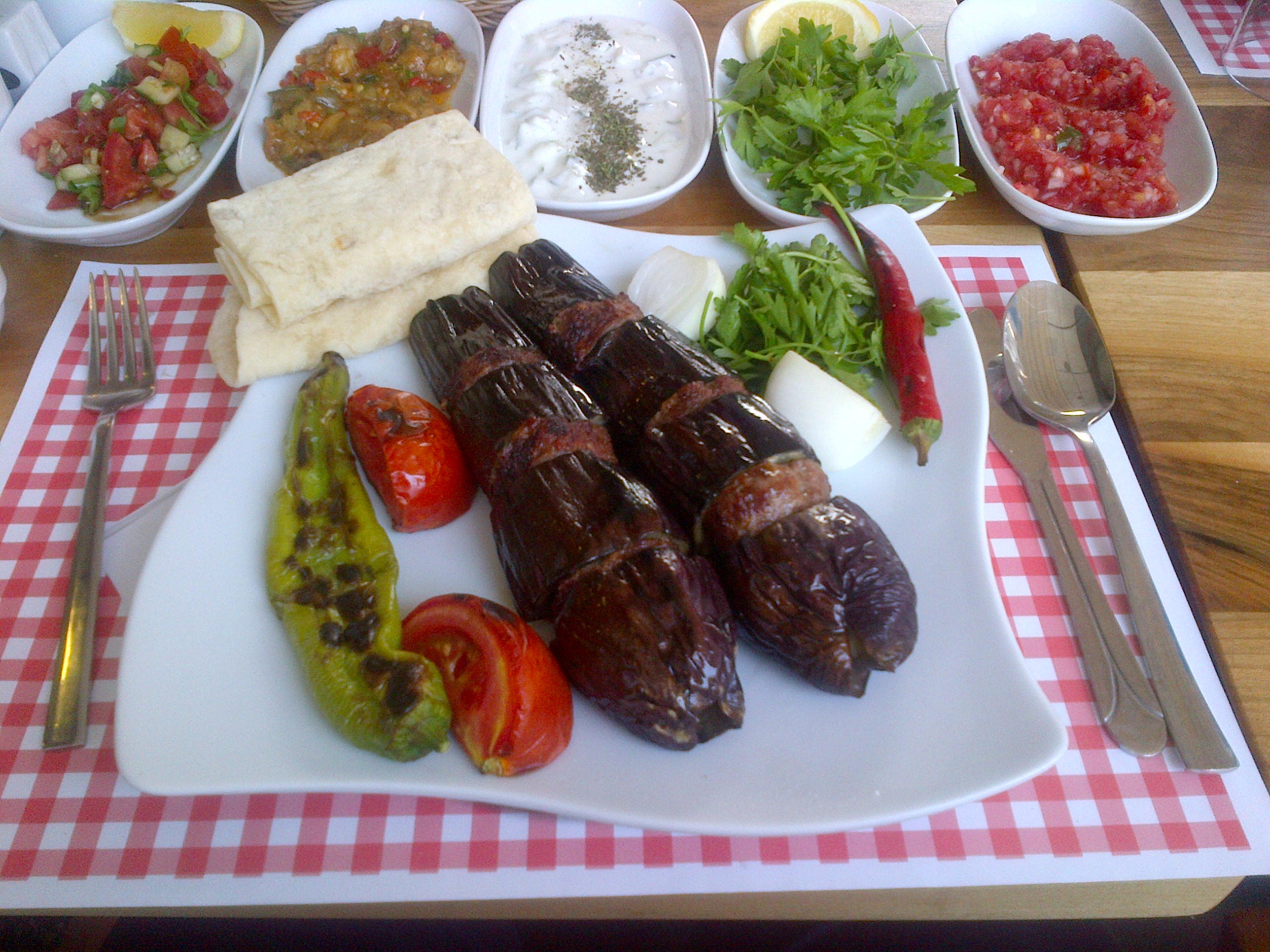 "Patlıcanlı kebap" from the cuisine of southern Turkey in a "kebapçı" at Ankara. Notice the flatbread and other accompaniments that come as a courtesy of the house.